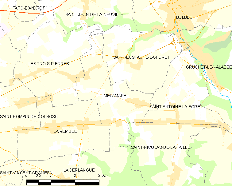 Map of French municipality Mélamare